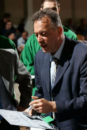 Zmago Sagadin coaching a game.